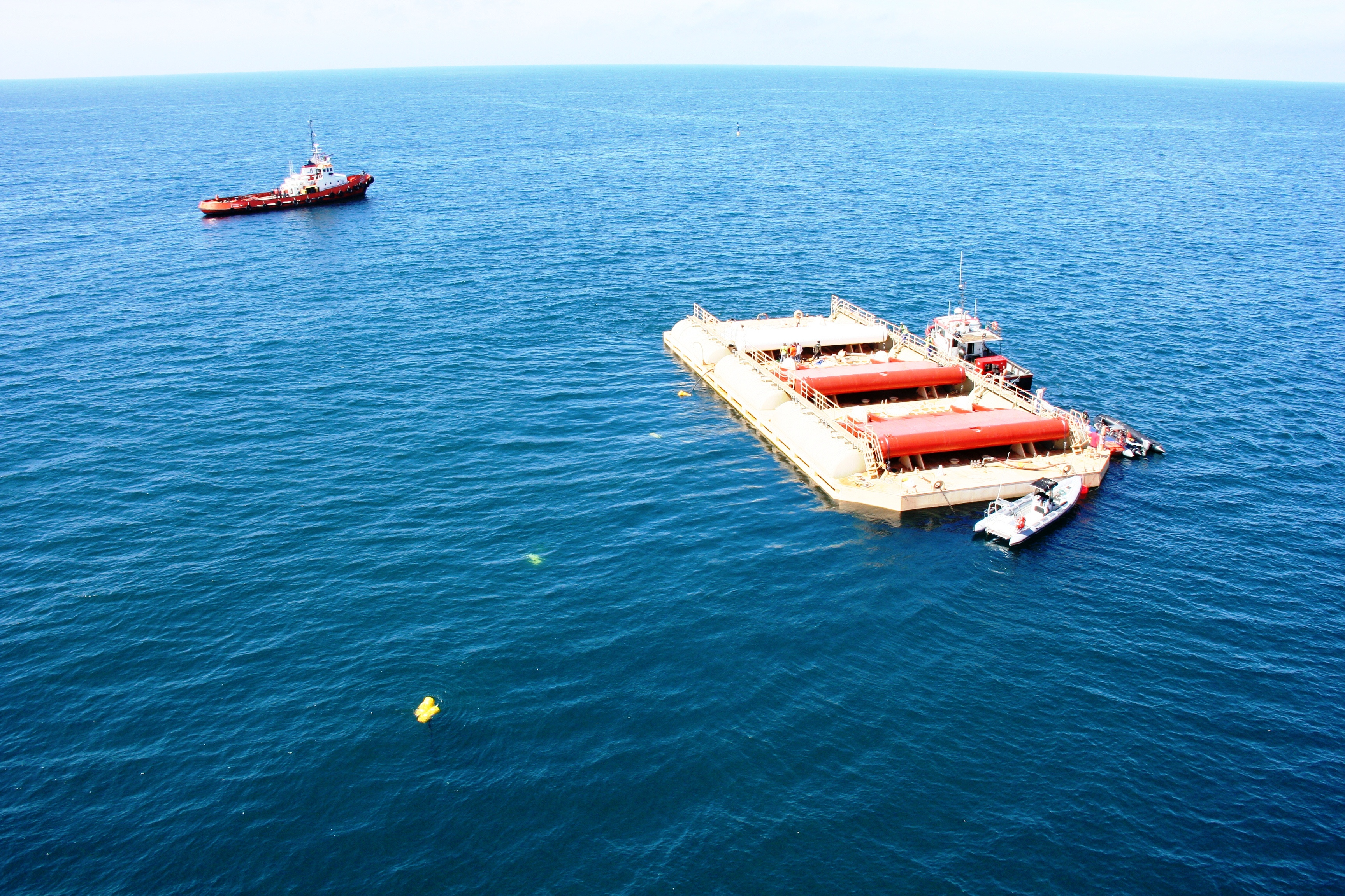 WaveRoller wave energy farm consisting of three 100kW units was installed in Peniche, Portugal, in August 2012. The farm generates electricity from wave power and delivers it to Portuguese national grid.